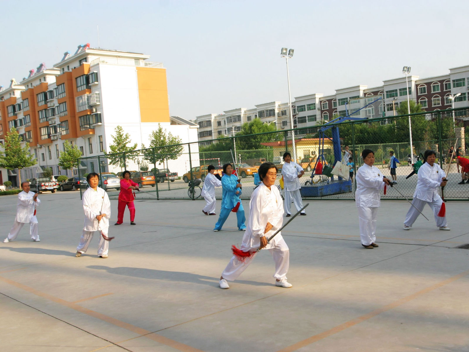 Old people do Taiji in community